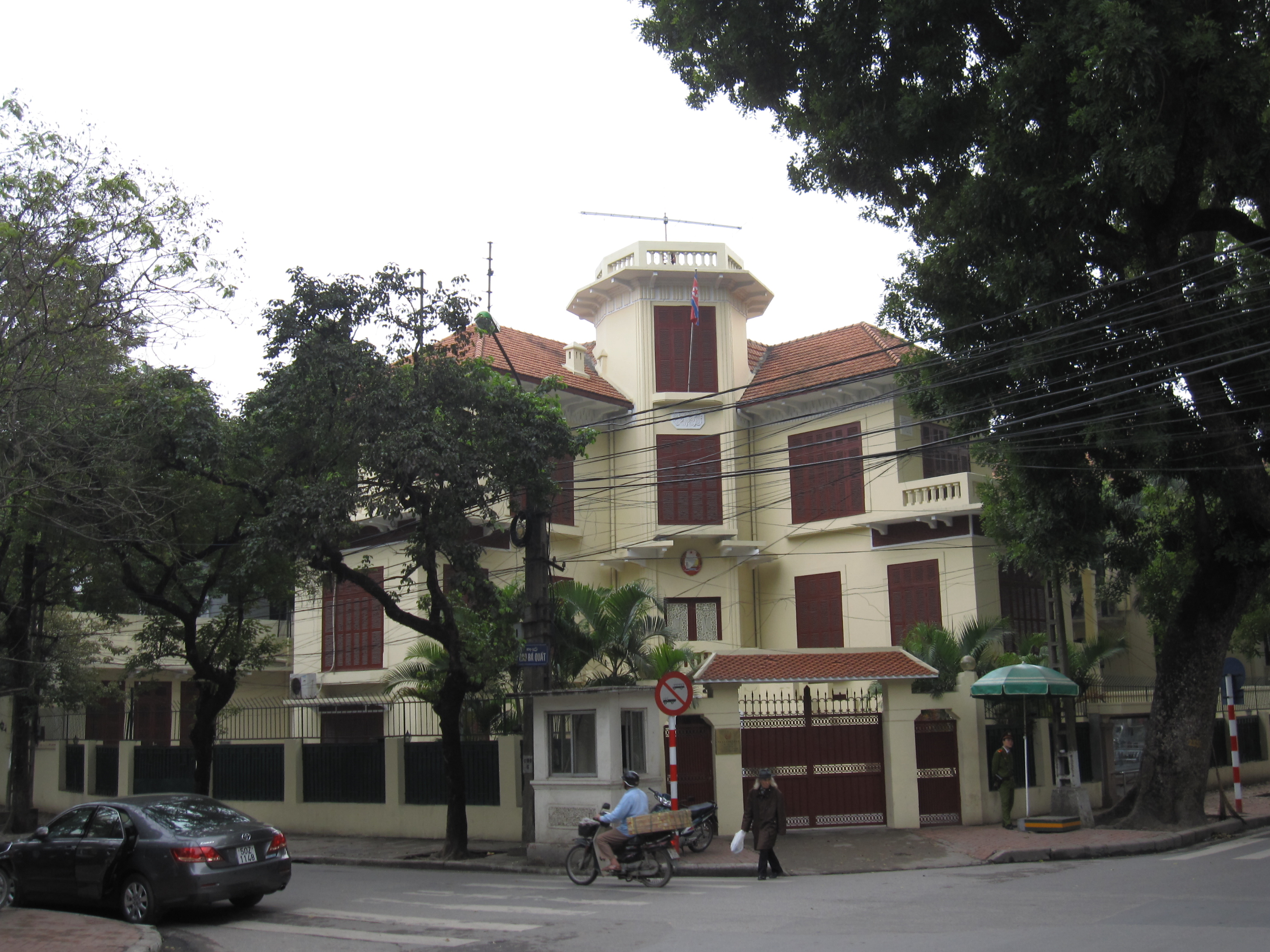 Embassy of North Korea, Hanoi